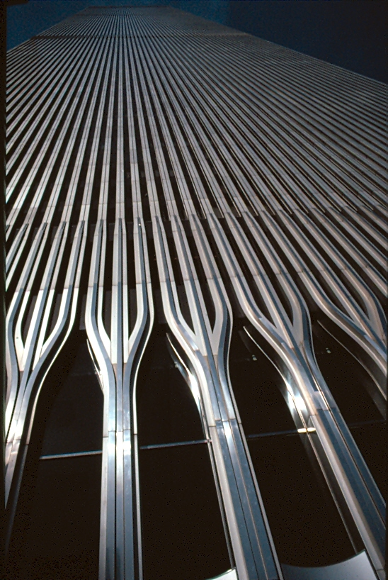 Permission: please cite Rainer Halama as author of this picture. I would also appreciate it, if you inform me when using this picture about where and when it has been used. Facade of one of Twin Towers of the World Trade Center in New York, NY